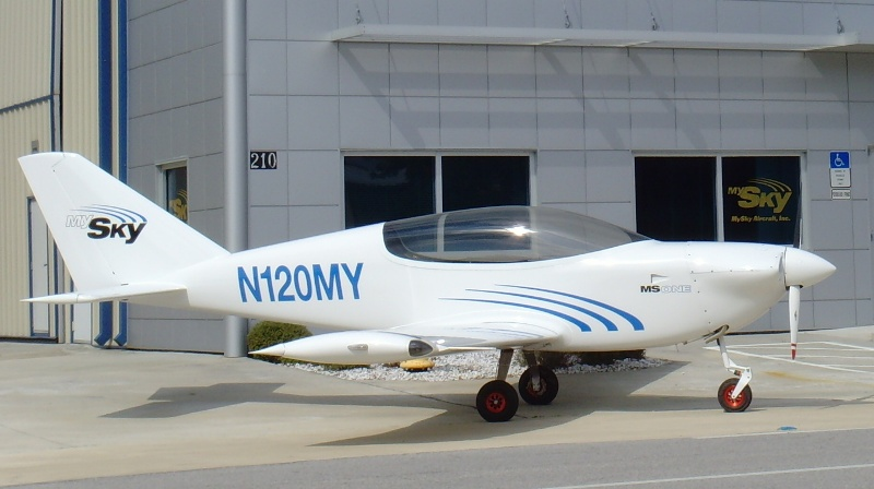 N120MY plane in front of the office